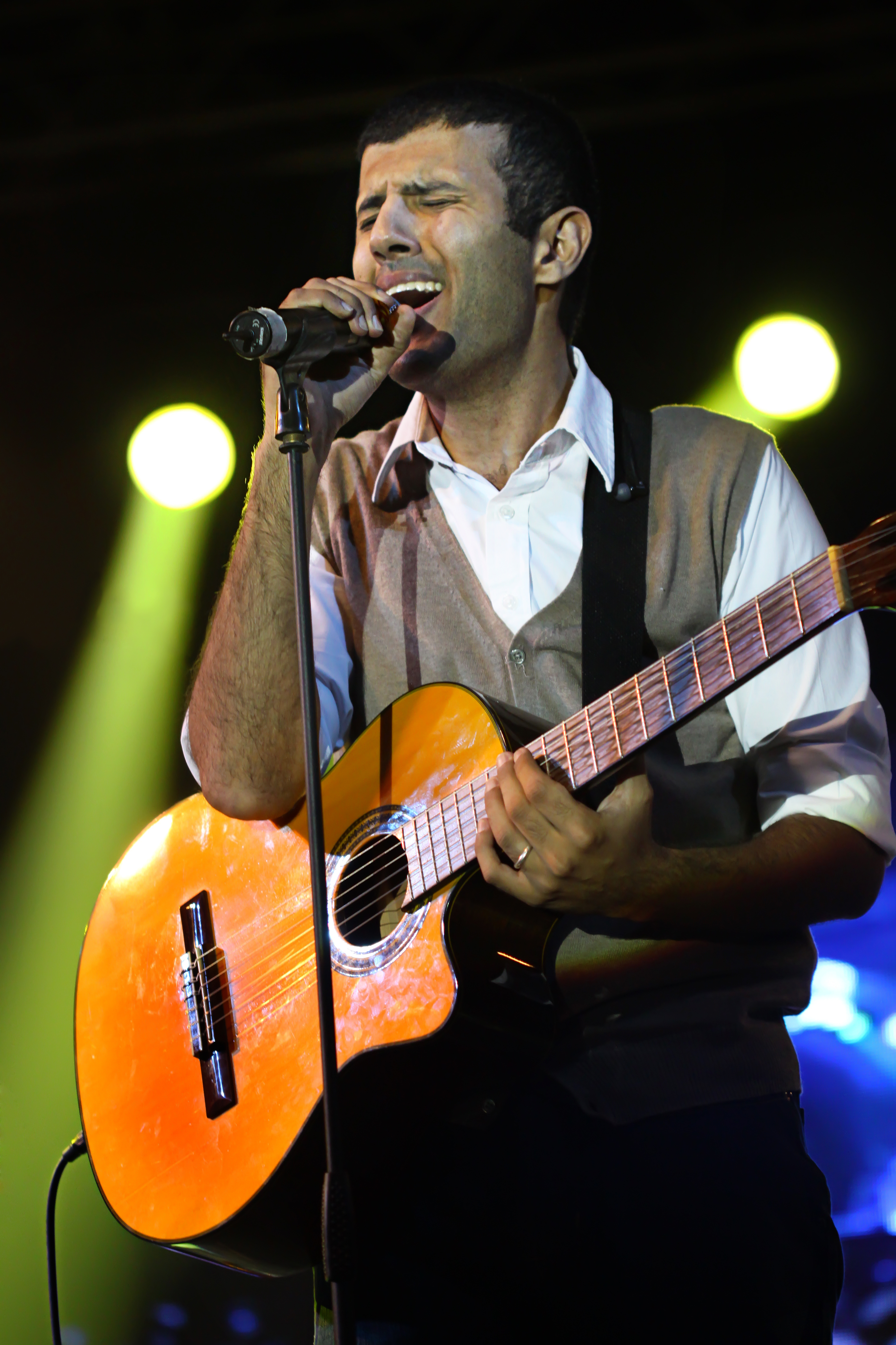 Hamza Namira performs in a concert 2011